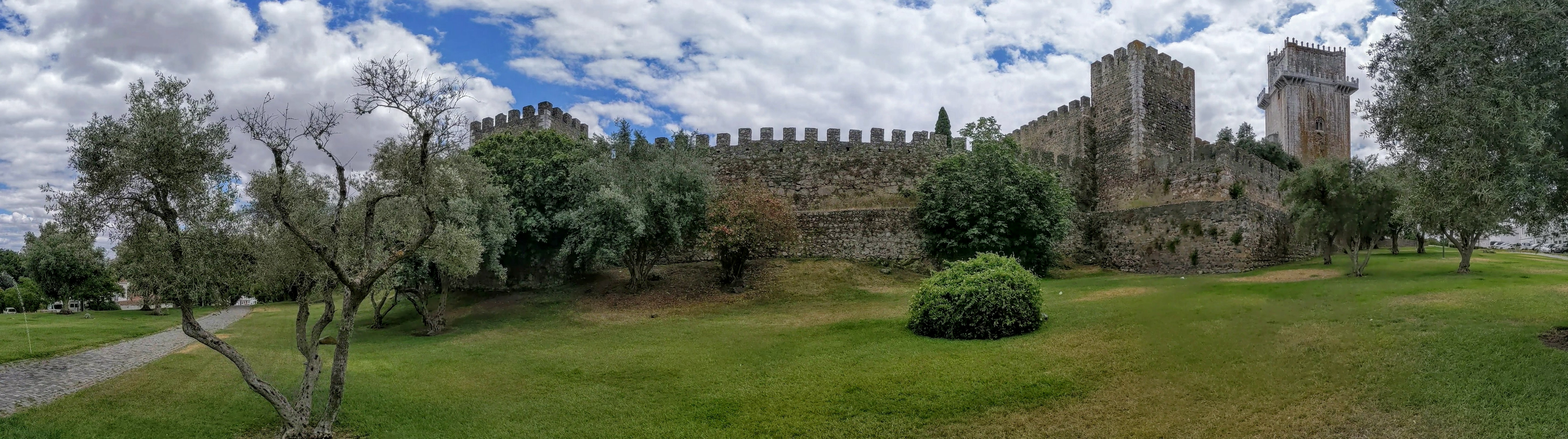 Castelo de Beja pano from the garden (Jardim da Rua de Dom Dinis e da Rua de Antero de Quental, Beja, Portugal)